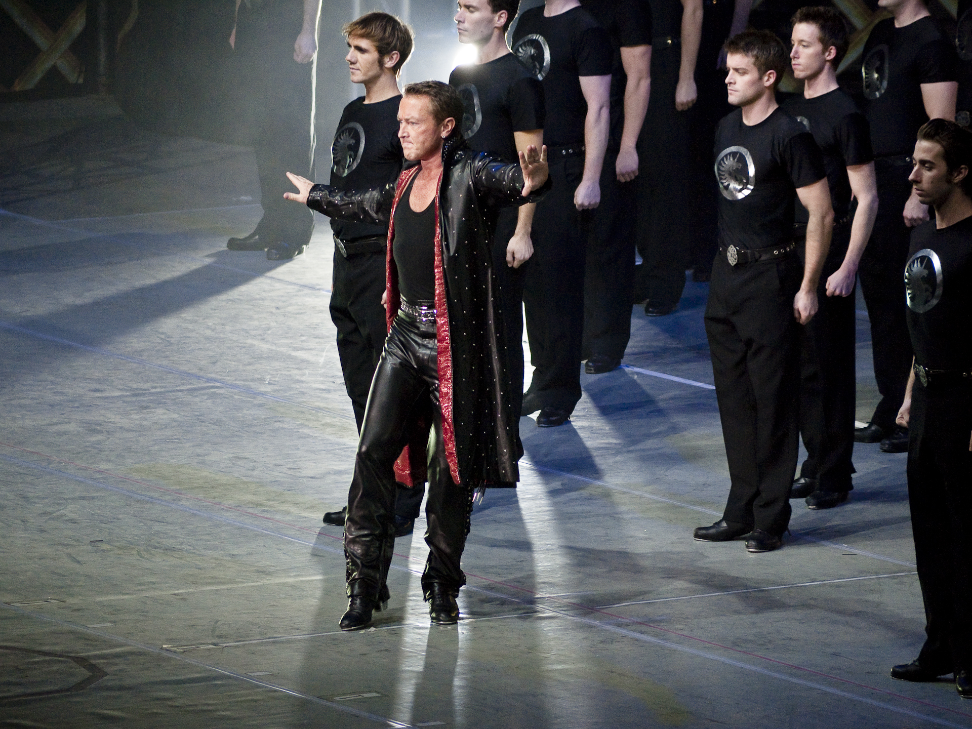 Irish dancer Michael Flatley